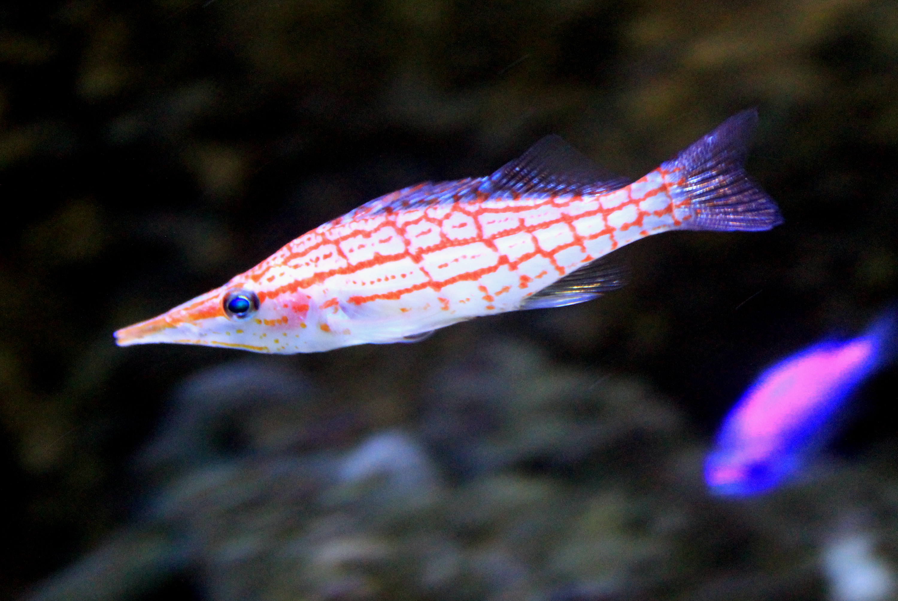 Fish Longnose Hawkfish , (Oxycirrhites typus) in Prague sea aquarium “Sea world”, Czech Republic